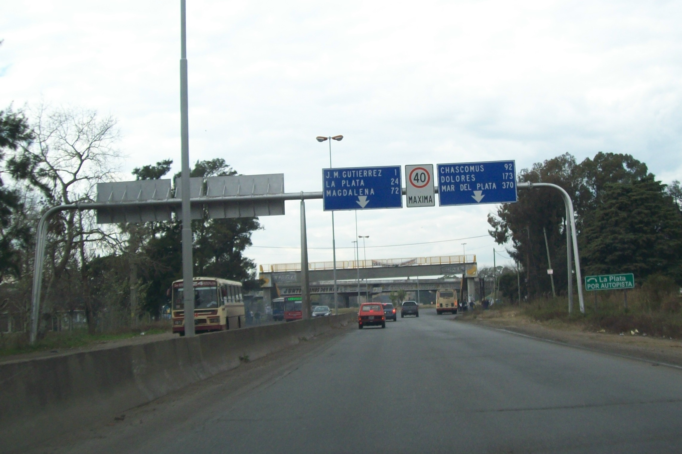 Provincial Route 36 two hundred meters west from Juan Maria Gutierrez roundabout, heading to east, in Juan Maria Gutierrez, Buenos Aires Province, Argentina.